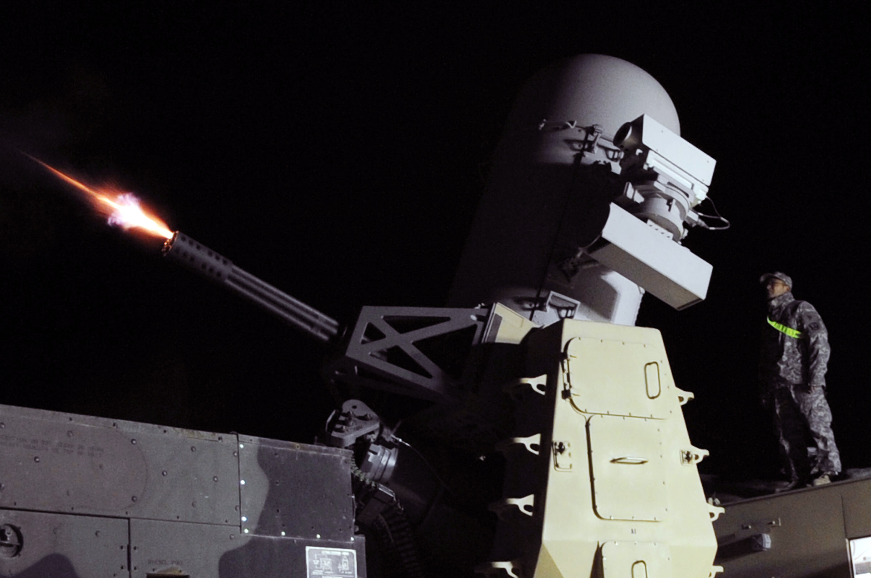 The Counter-Rocket, Artillery, Missile gun fires flares during a weapons test at Joint Base Balad, Iraq, Jan. 31, 2010. The C-RAM has the ability to fire up to 4,500 rounds per minute to protect the base against incoming projectiles.